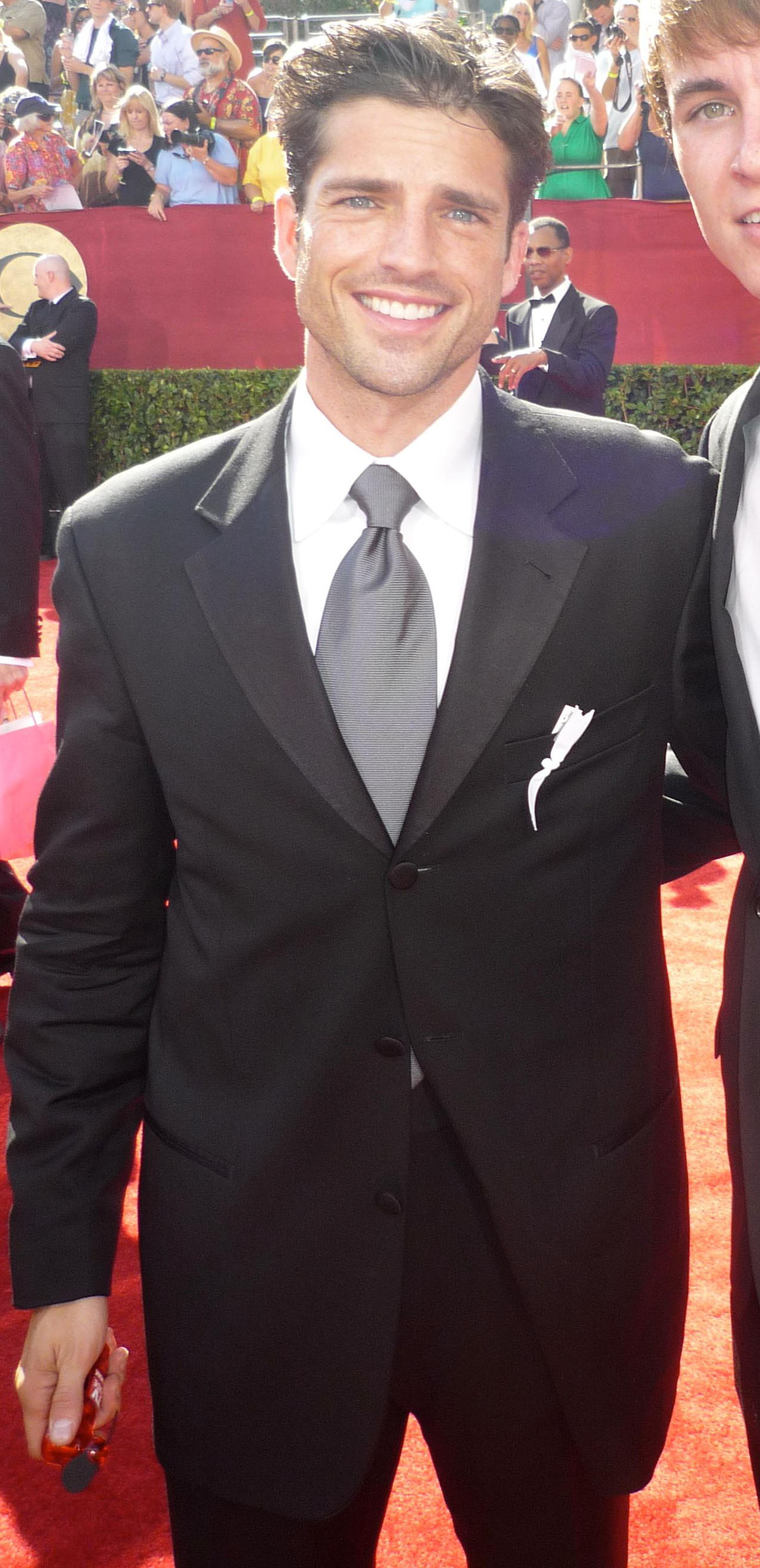 Actor Scott Bailey at the 2009 Primetime Emmy Awards.